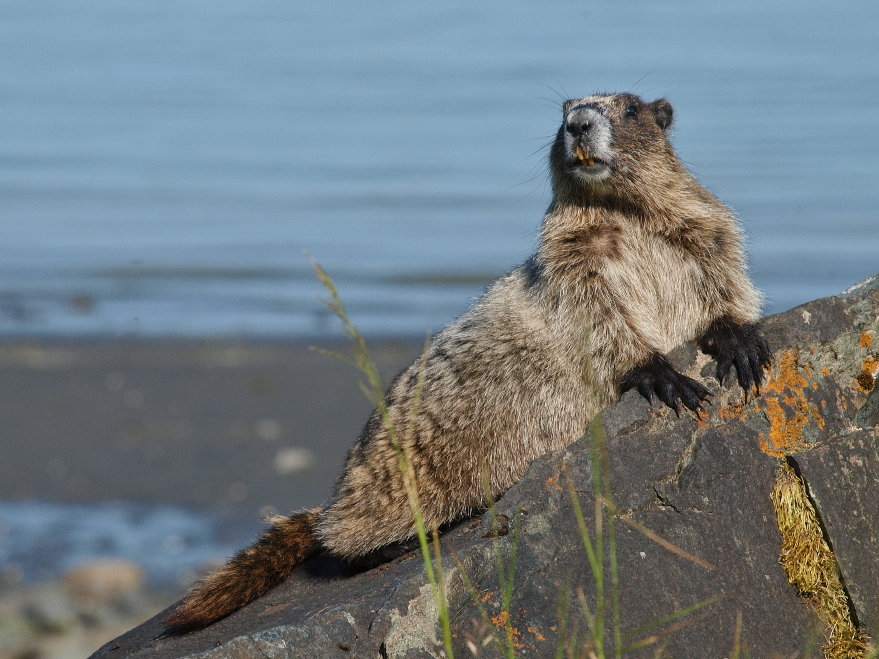 A Hoary Marmot suns itself on a rock near False Outer Point in Juneau, Alaska.